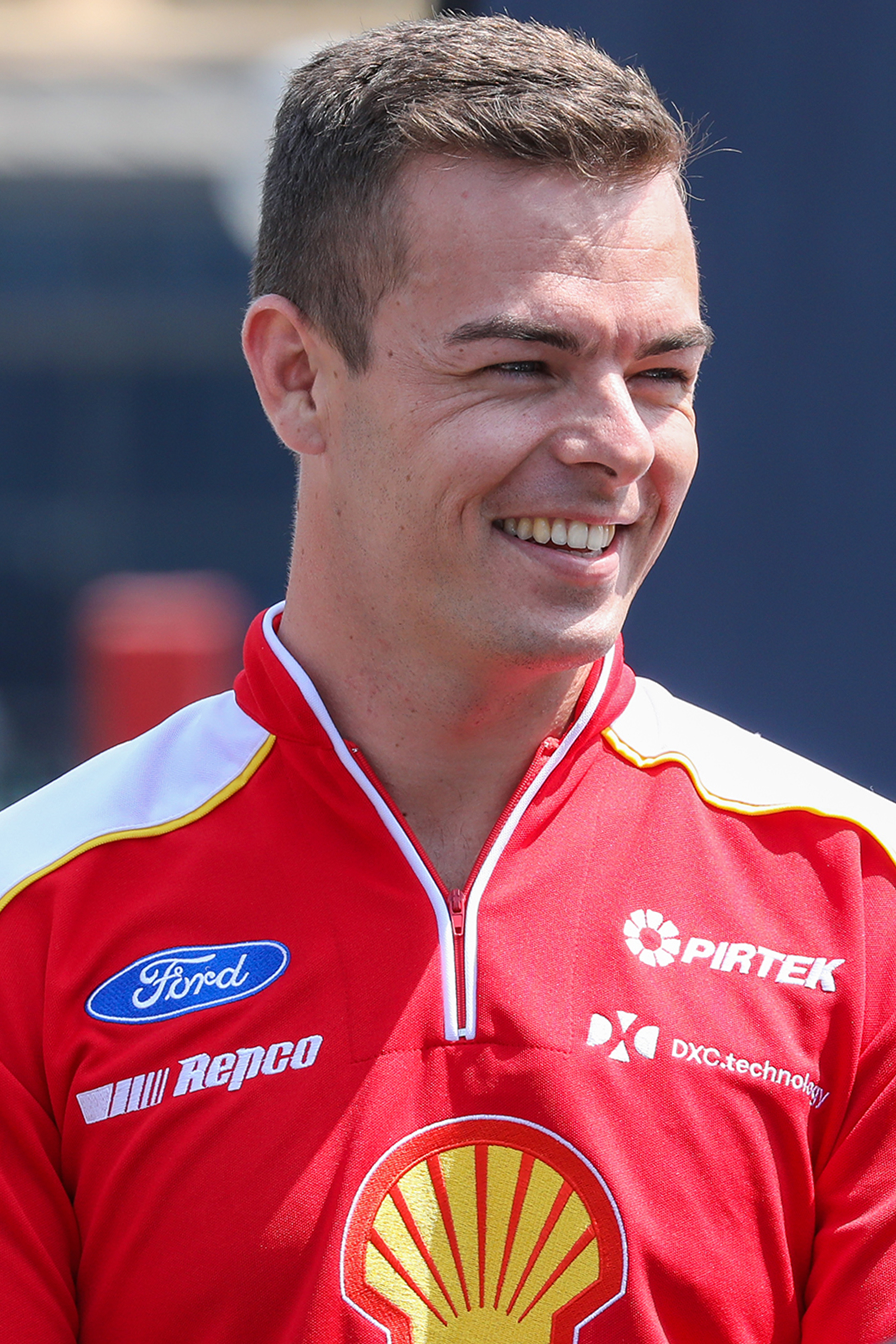 Scott McLaughlin at the 2020 Supercars season launch